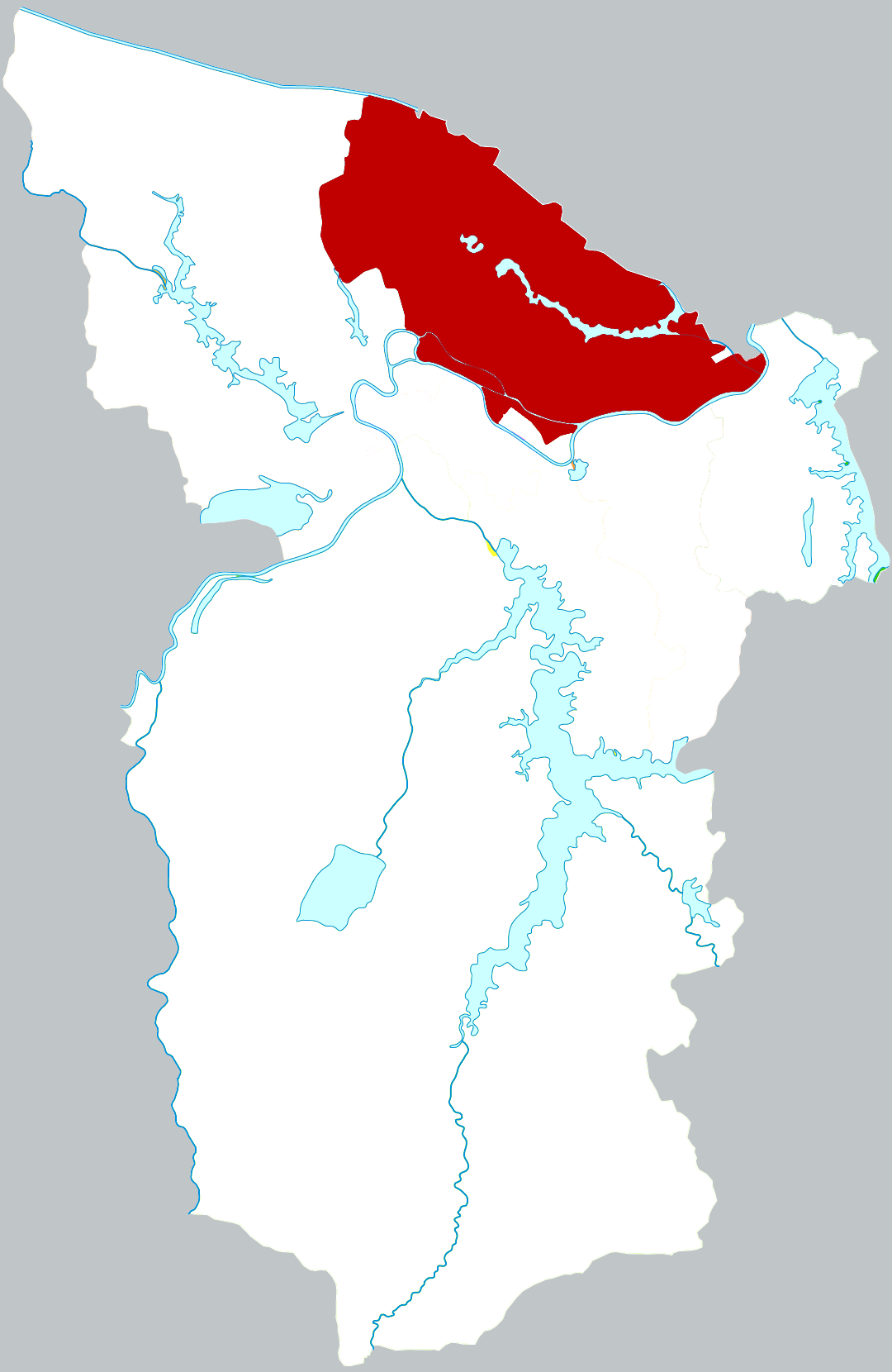 Location of Panji district in Huainan city, China